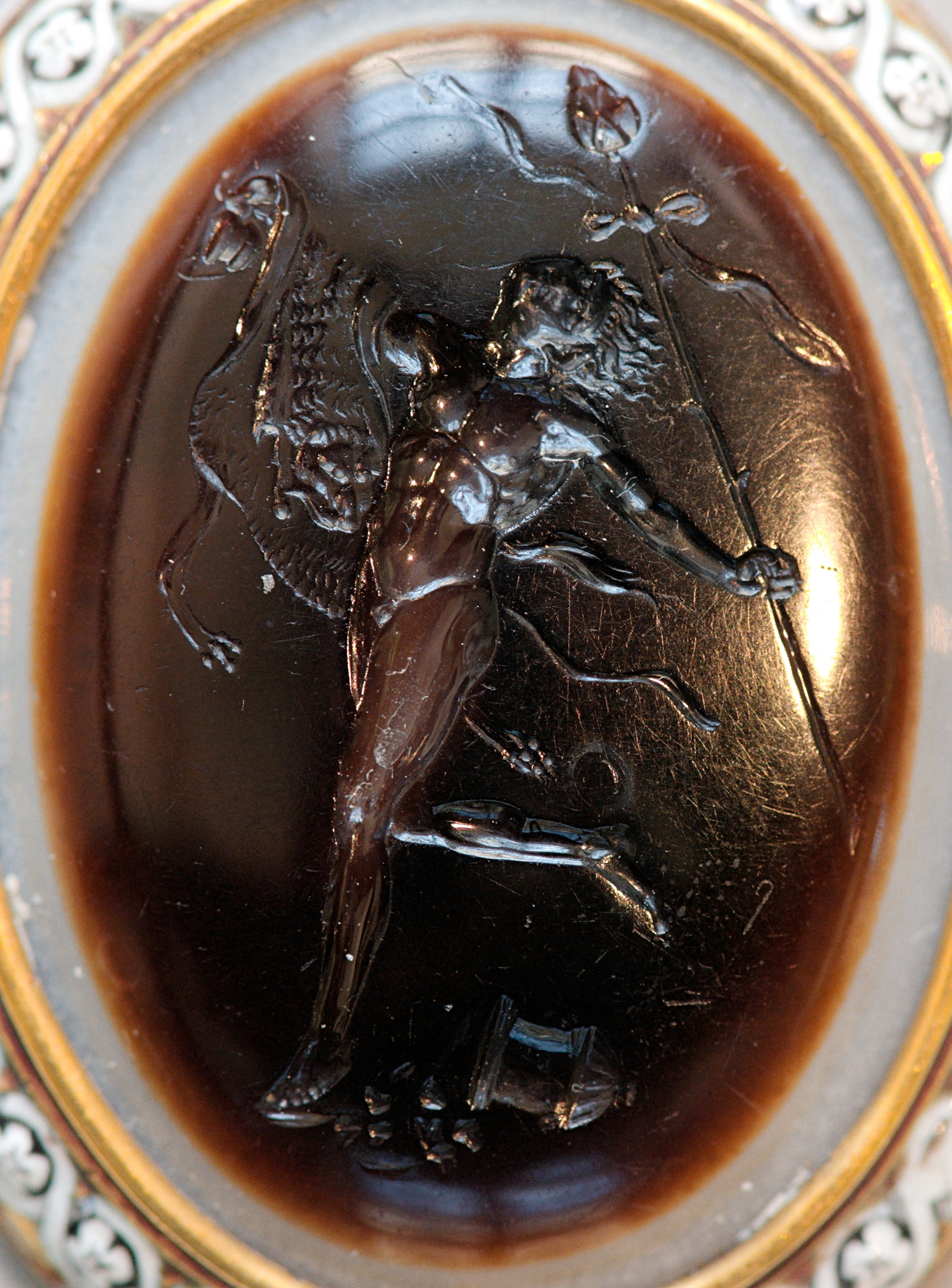 Intaglio with a dancing satyr holding a thyrsus in his left hand and a kantharos in the right hand. On the right arm, the skin of a panther (pardalis).